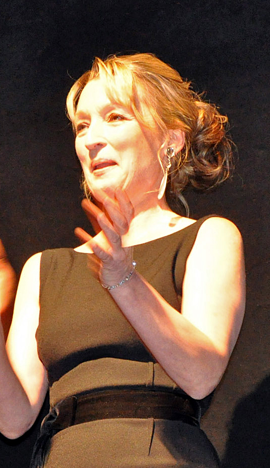 Lesley Manville at the screening of Another Year at the 2010 Toronto International Film Festival